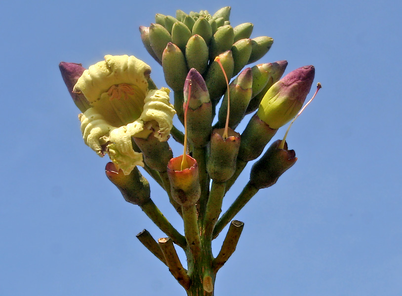 Oroxylum indicum (Syn. Bignonia indica, Calosanthes indica)- Broken bones tree, Tree of Damocles, Indian Trumpet Flower, Sonpatha, Midnight horror • Hindi: भूत वृक्ष bhut-vriksha, दीर्घवृन्त dirghavrinta, कुटन्नट kutannat, मण्डूक manduk (the flower), पत्रोर्ण patrorna, पूतिवृक्ष putivriksha, शल्लक shallaka, शूरण shuran, सोन or शोण son, वटुक vatuk • Manipuri: শম্বা Shamba • Marathi: टायिटू tayitu, टेटु tetu • Tamil: சொரிகொன்றை cori-konnai, பாலையுடைச்சி palai-y-utaicci, பூதபுஷ்பம் puta-puspam (the flower) • Malayalam: പലകപയ്യാനി palaqapayyani, വാശ്പ്പാതിരി vashrppathiri, വെള്ളപ്പാതിരി vellappathiri • Telugu: మండూకపర్ణము manduka-parnamu, పంపెన pampena, శూకనాసము suka-nasamu, తుందిలము tundilamu • Kannada: ತಟ್ಟುನ tattuna • Konkani: davamadak • Bengali: সোনা sona • Oriya: टटेलों tatelo • Assamese: তোগুনা Toguna • Sanskrit: अरलु aralu, श्योनक shyonaka - in Herbal Garden, in Rangareddy district of Andhra Pradesh, India.